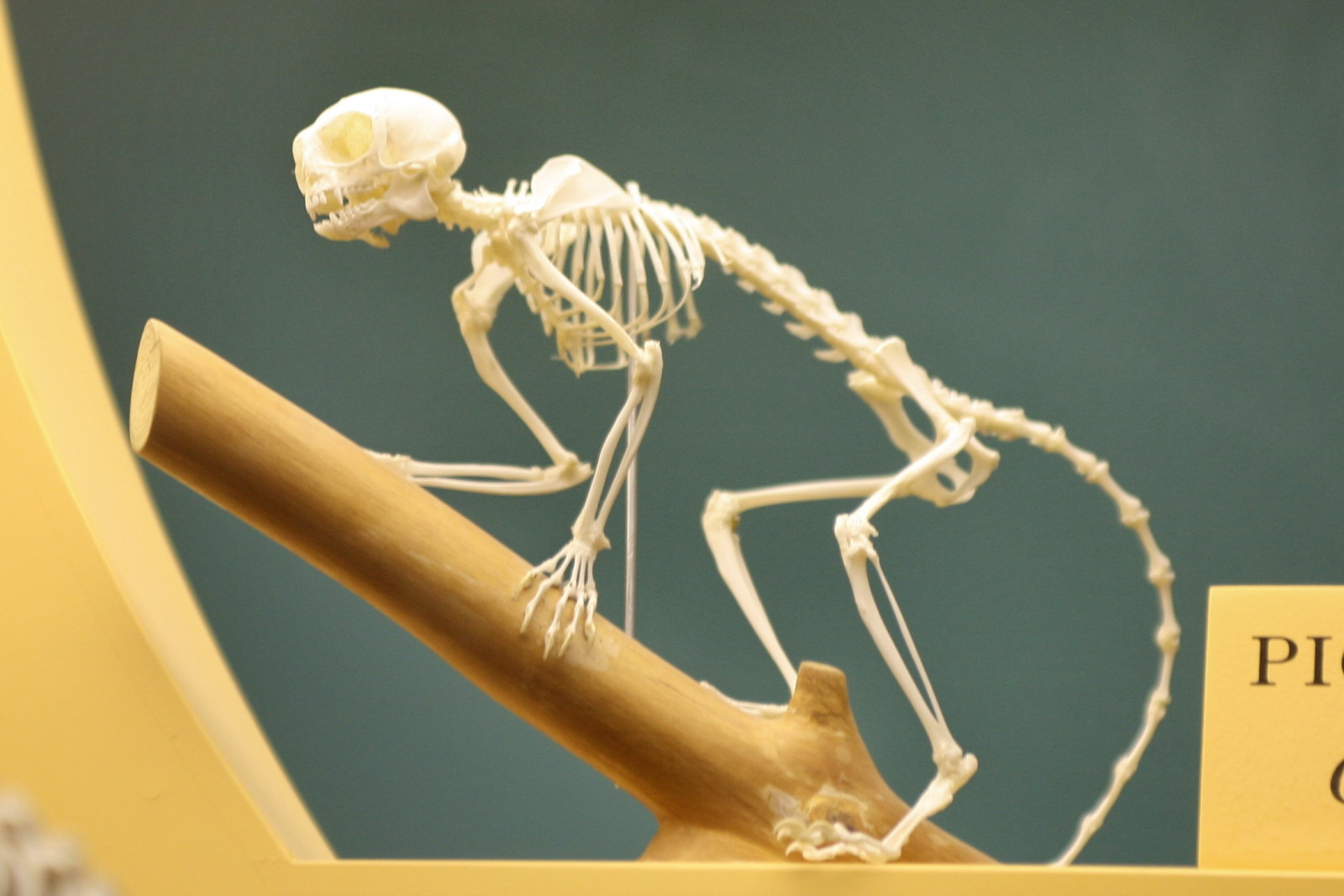 Callithrix (Cebuella) pygmaea Skeleton